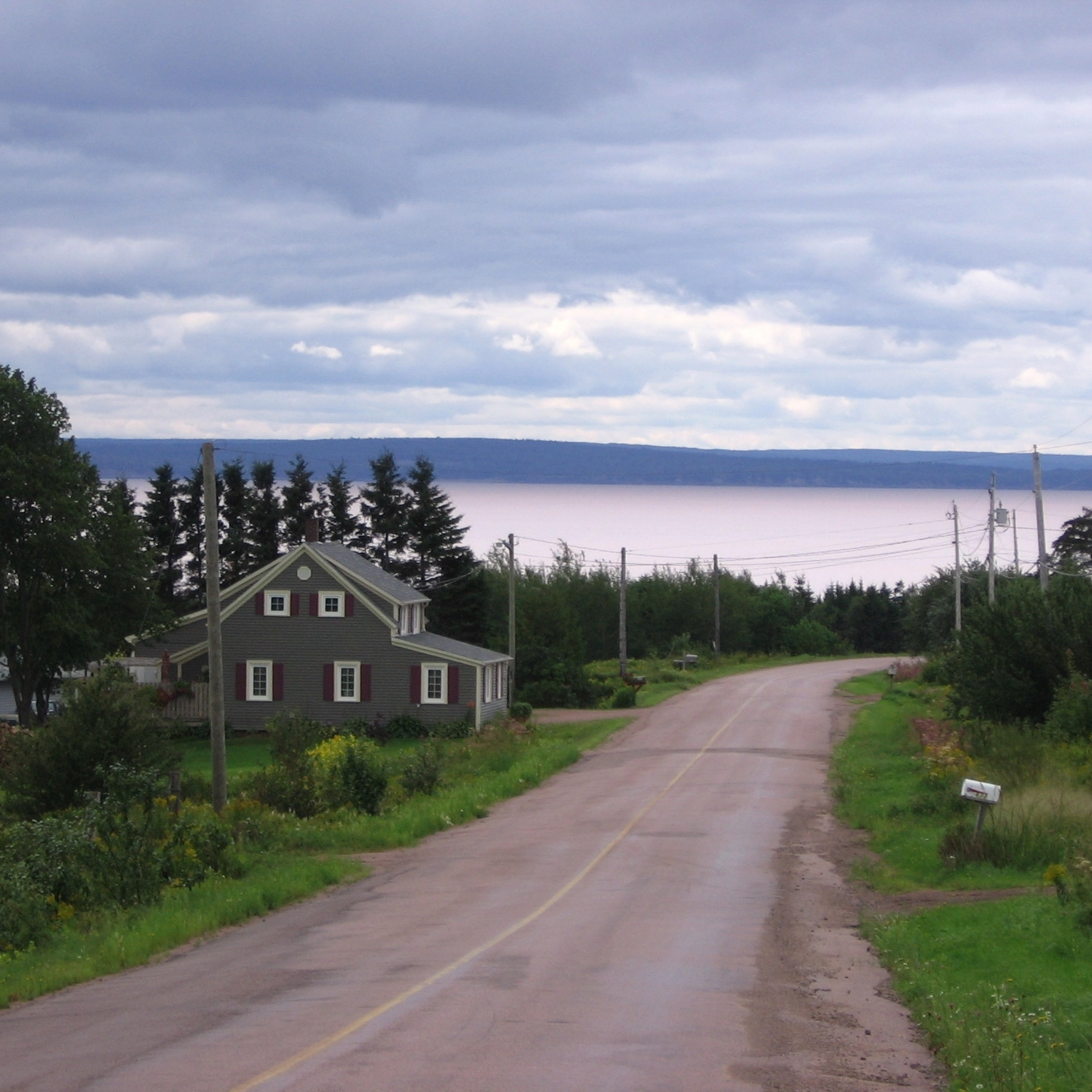 View of Cumberland Basin from Wood Point, New Brunswick showing the coast of Nova Scotia on the far side of the basin.